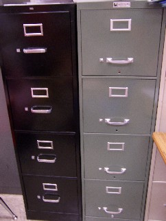 Metal File Cabinet Created April 2006 by Verloren Hoop 15:14, 13 May 2006 (UTC) Image may be used if credit is given to Elizabeth Roy.